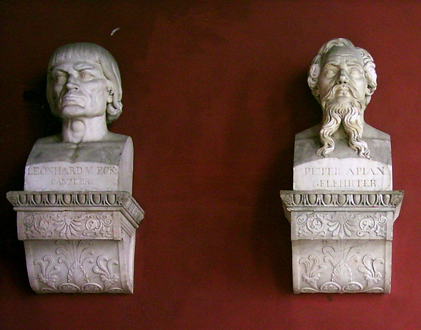 Busts of Leonhard v. Eck and Peter Apian at Ruhmeshalle ("Hall of fame"), München, Germany. Picture taken by myself: Dominik Hundhammer, München, 27 March 2006.